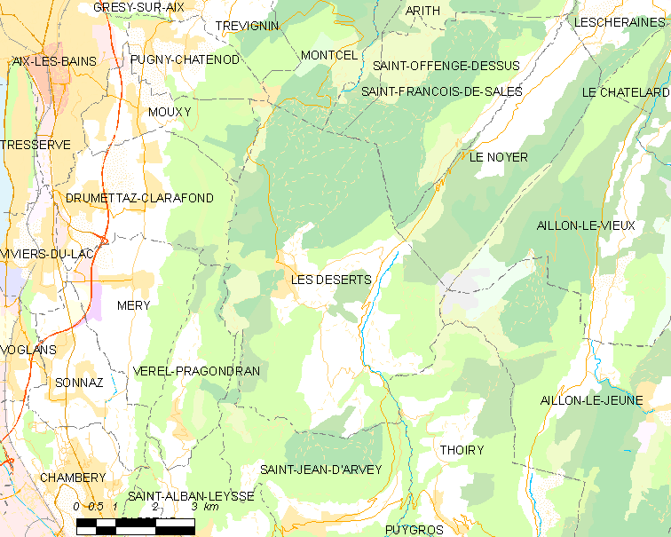 Map of French municipality